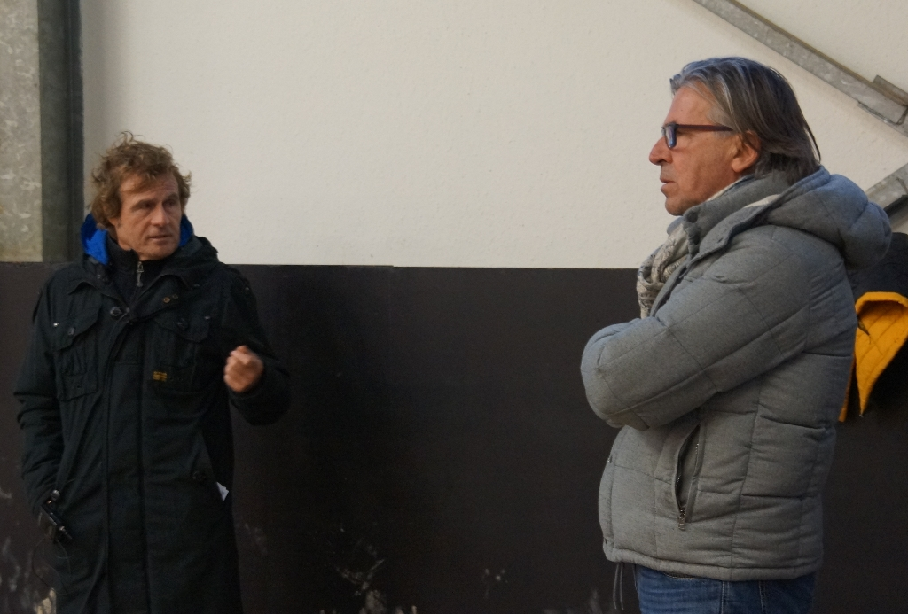 Sjef Janssen and Franz-Josef Dahlmann sen., WDM Roosendaal 2015